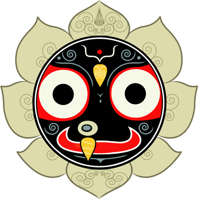 The icon of the Jagannath tradition of Hinduism, likely syncretic as it also incorporates ideas and practices of Buddhism, Jainism, Vaishnavism, Shaivism, Shaktism, tantra and tribal traditions. The icon is drawn in many variants. The common elements are the black colored circle, two big round eyes, red smile and Urdhva Pundra on the forehead. The petals may be of another color and with symbolic items/attributes.